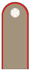 Military rang insignia of the German Democratic Republic until 1990, here: Shoulder board of the Soldat (comparable to OR-1 NATO) Weapon colour: karmesine, to – National People´s Army, Land forces, Rocket troops and artillery.